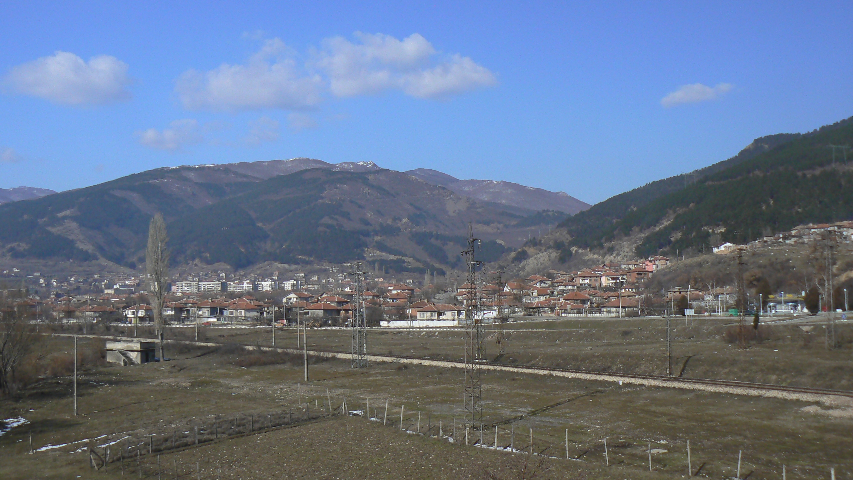 View towards the town of Tvurditsa, Bulgaria